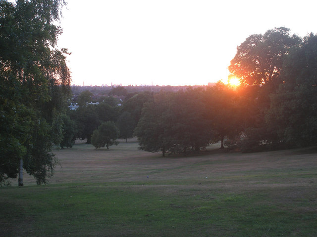 Elmdon Park, Solihull. The western side of Elmdon Park, Solihull. (Birmingham City Centre can be seen on the horizon).